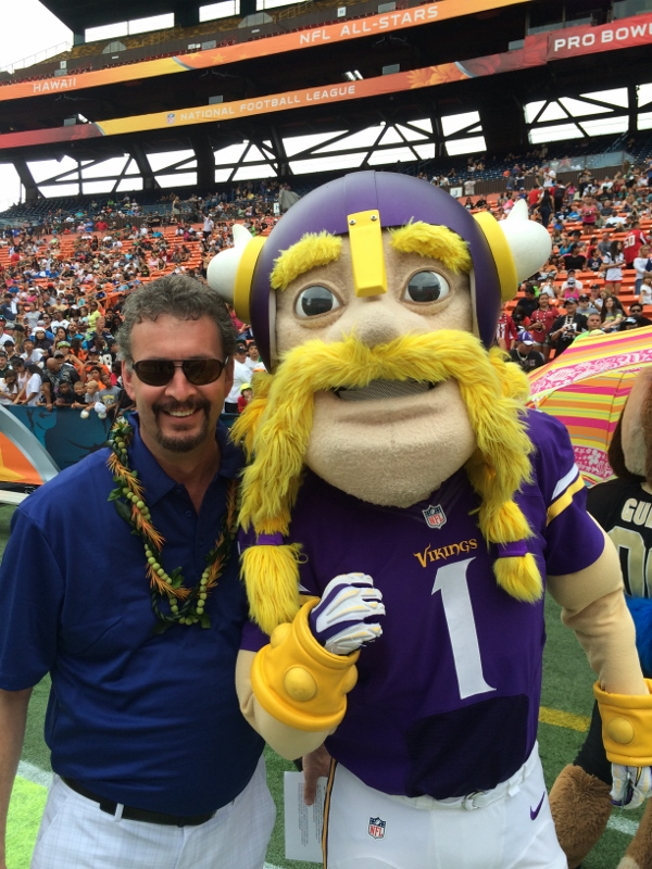 Alan Roach at 2014 Pro Bowl, Honolulu, Hawaii